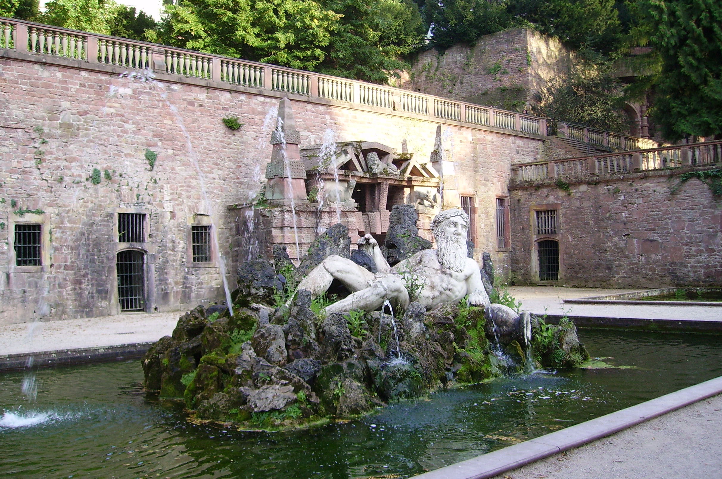 garden of Heidelberg castle (Hortus Palatinus)